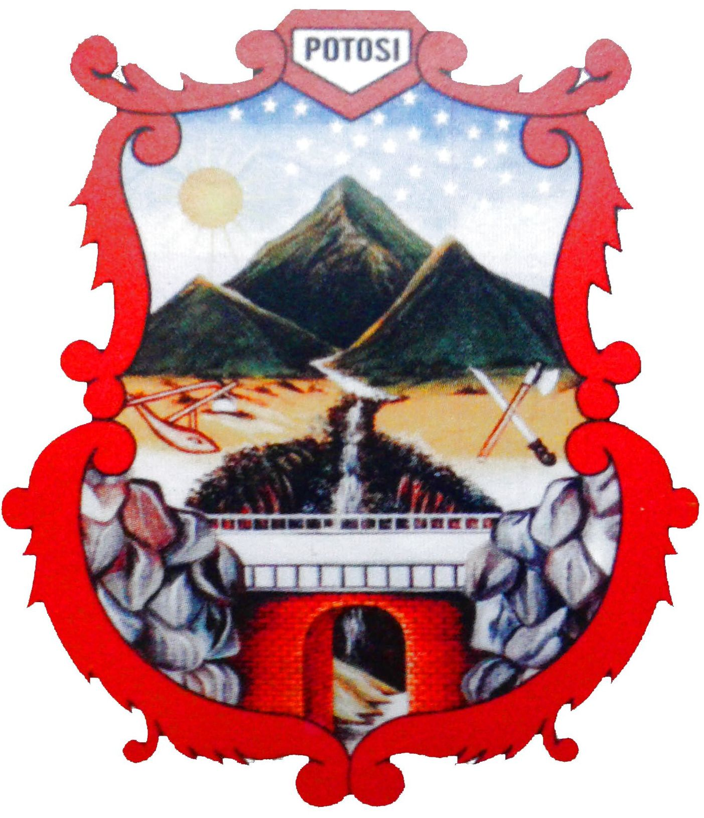 Escudo Municipio de Potosi